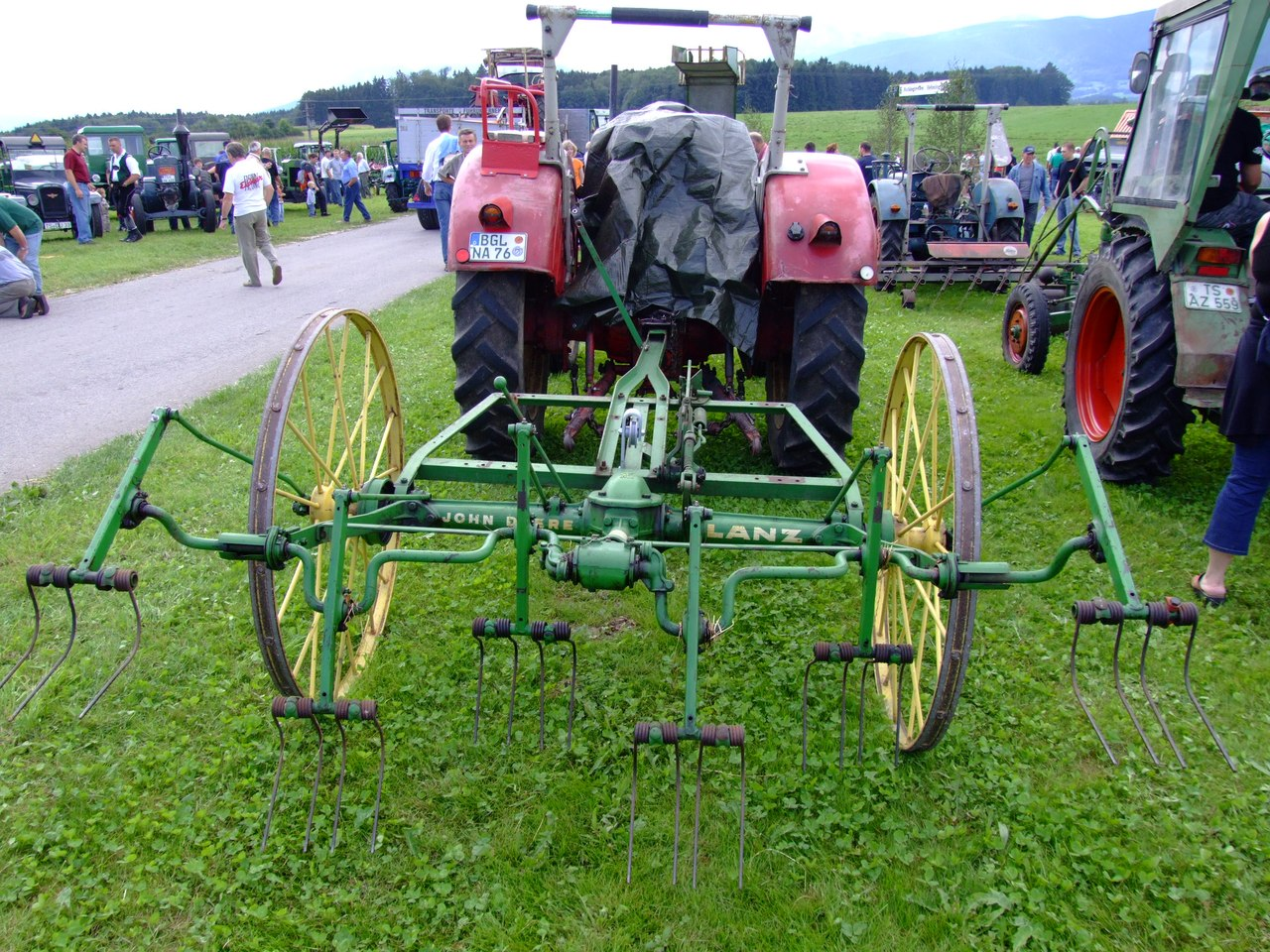 John Deere-Lanz 6-fork hay tedder in Germany